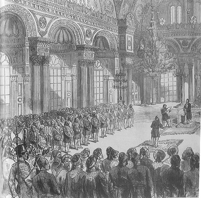 Opening of the first Ottoman Parliament (Meclis-i Umumî), 1877.